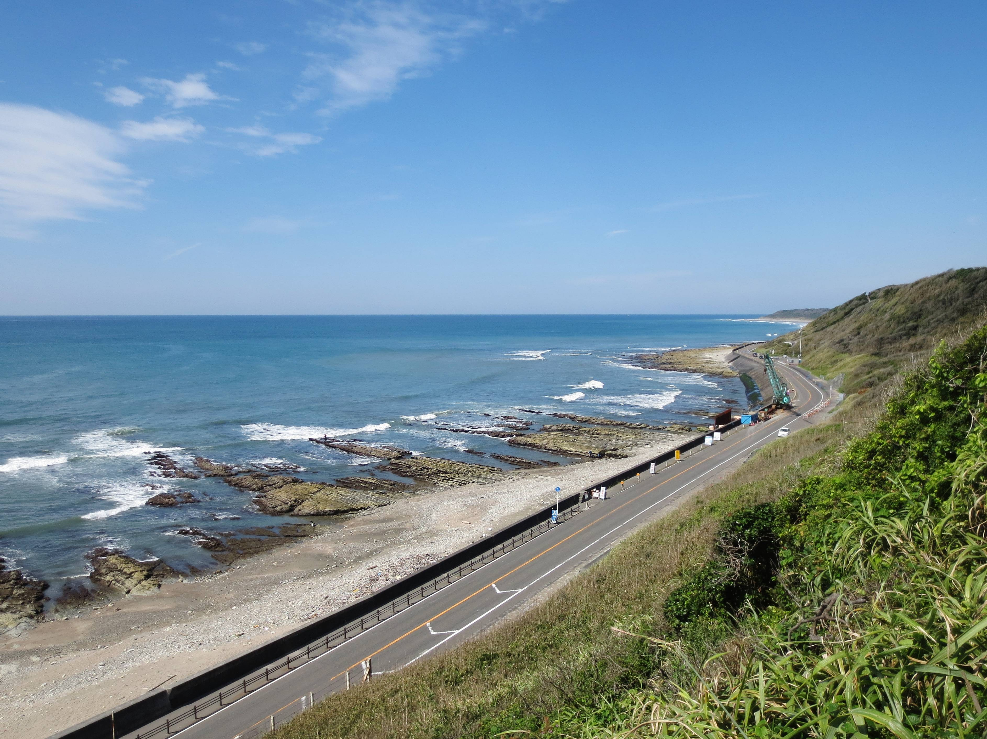 Shizuoka prefectural road 357 view from Omaezaki Lighthouse.